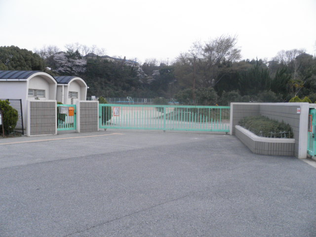 Midorigoaka elementary school Mikicity The gate for own motion